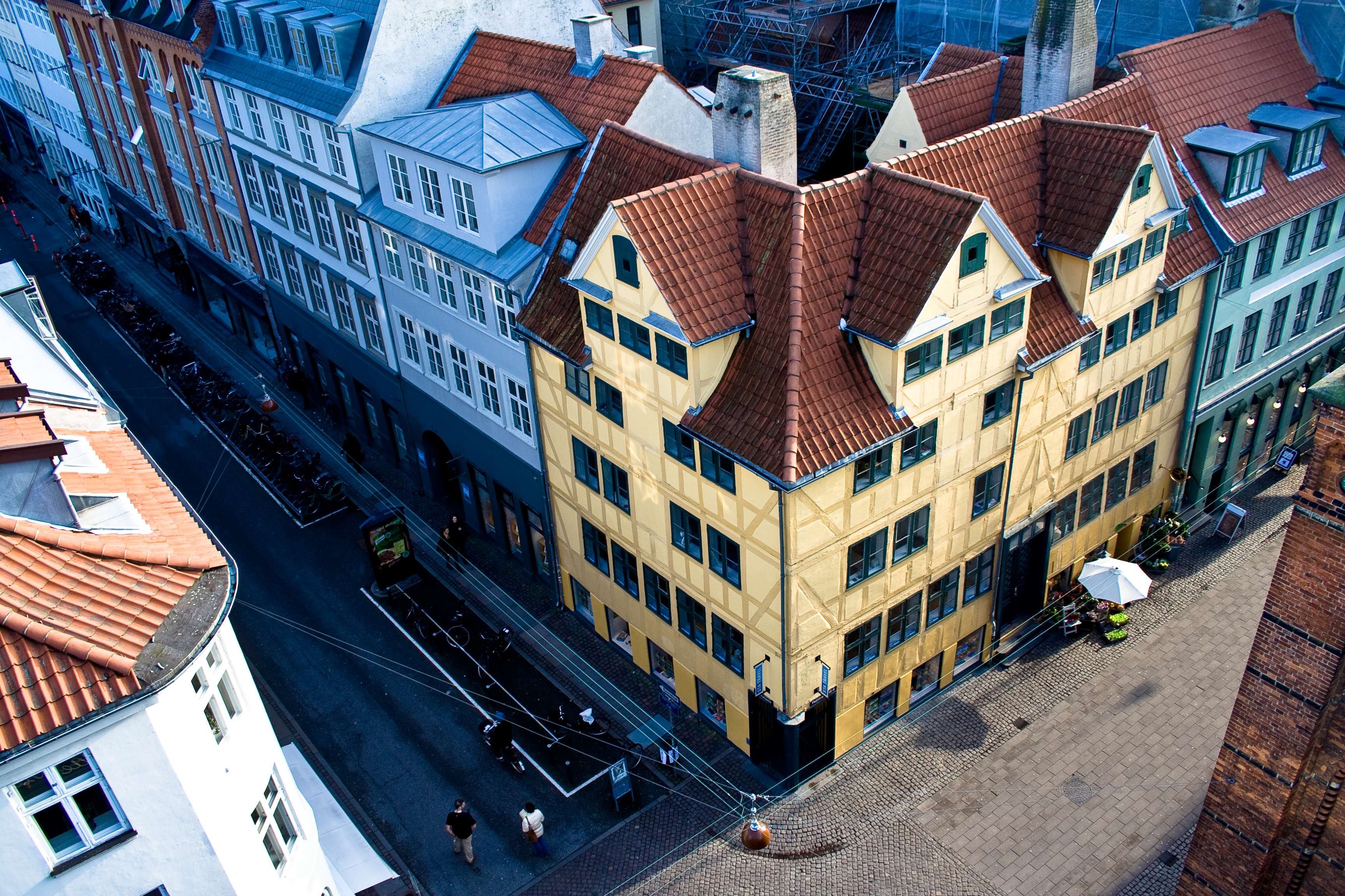 The listed Building at 18 Fiolstræde seen from the roof of Hotel Sankt Petri in Central Copenhagen, Denmark